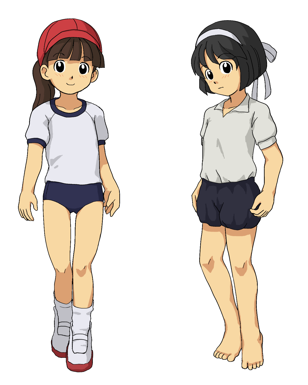 Japanese school sports uniform examples for wikipedia ブルマー